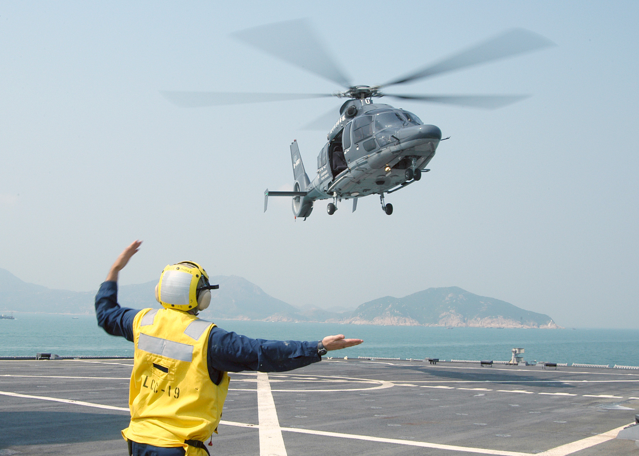 Hong Kong (Nov. 1, 2003) -- Landing Signalman Enlisted (LSE) Boatswain’s Mate 1st Class Joseph Mullen, from Seattle, Wash., signals an EC-155 Dauphin helicopter from the Hong Kong Government Flying Service to depart the ship's flight deck. U.S. Navy photo by Photographer’s Mate 1st Class Novia E. Harrington. (RELEASED)